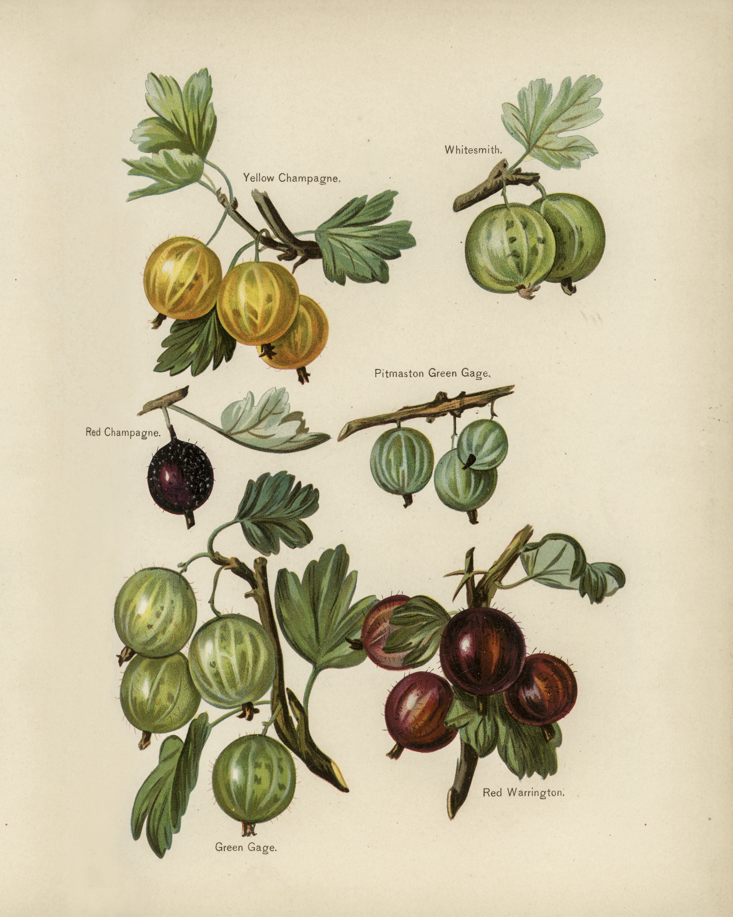 The fruit grower's guide : Vintage illustration of gooseberry